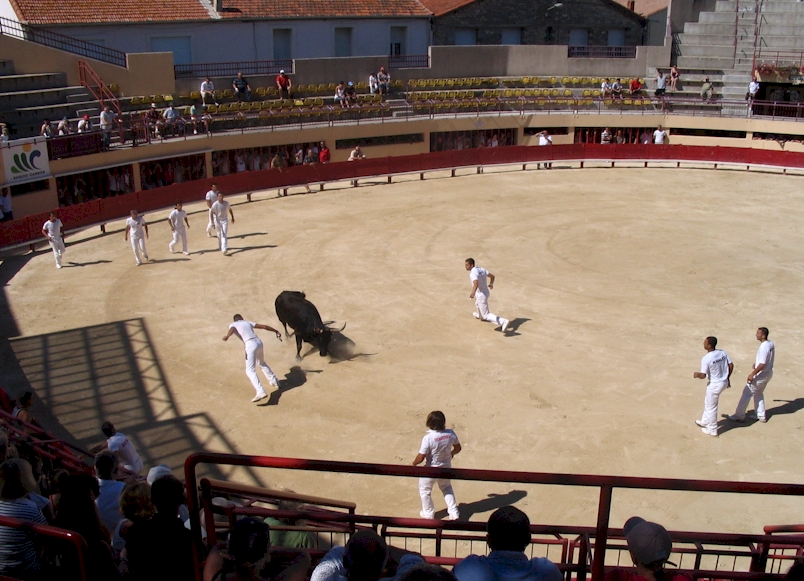 Course camarguaise. stage of the Trophée des As 2008 at Mauguio (Hérault, France), sunday june 29th 2008. Sabri Allouani facing a bull called Orus.